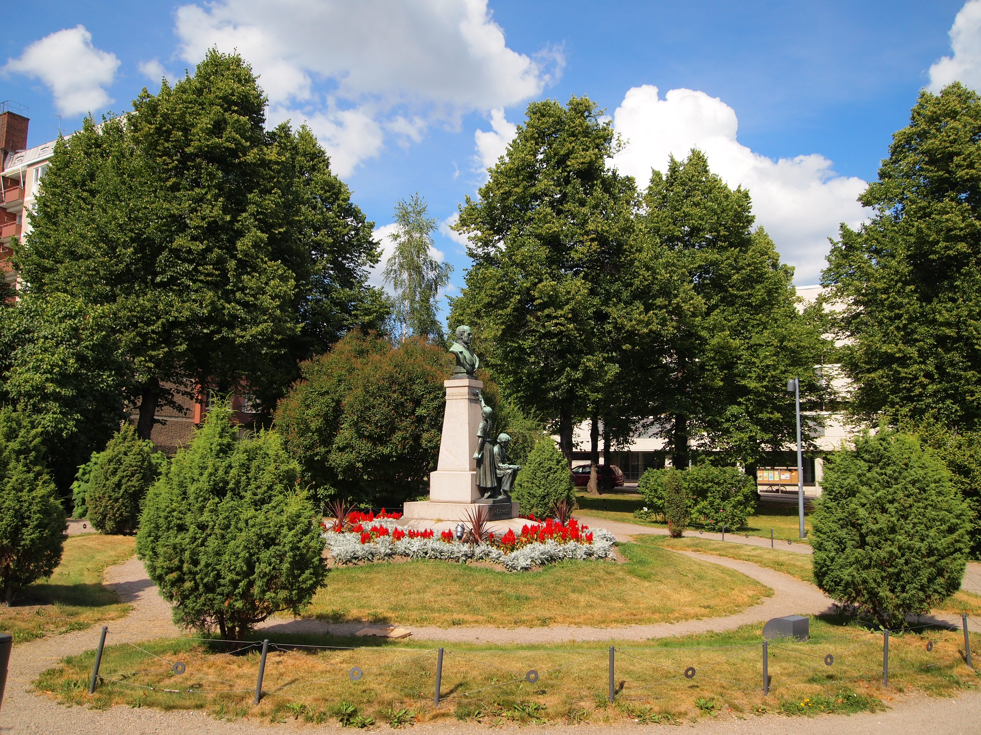 Park Cygnaeuksenpuisto in Jyväskylä.